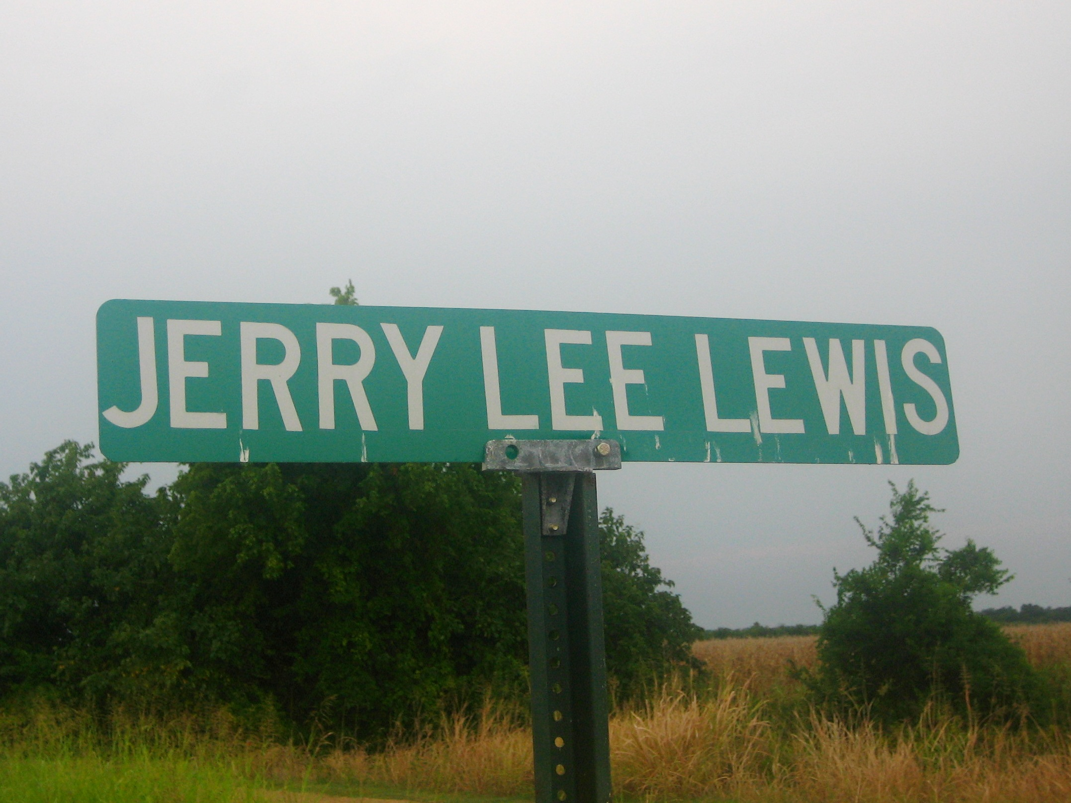 I took photo on Aug. 1, 2008.Billy Hathorn (talk) 04:27, 20 August 2008 (UTC)